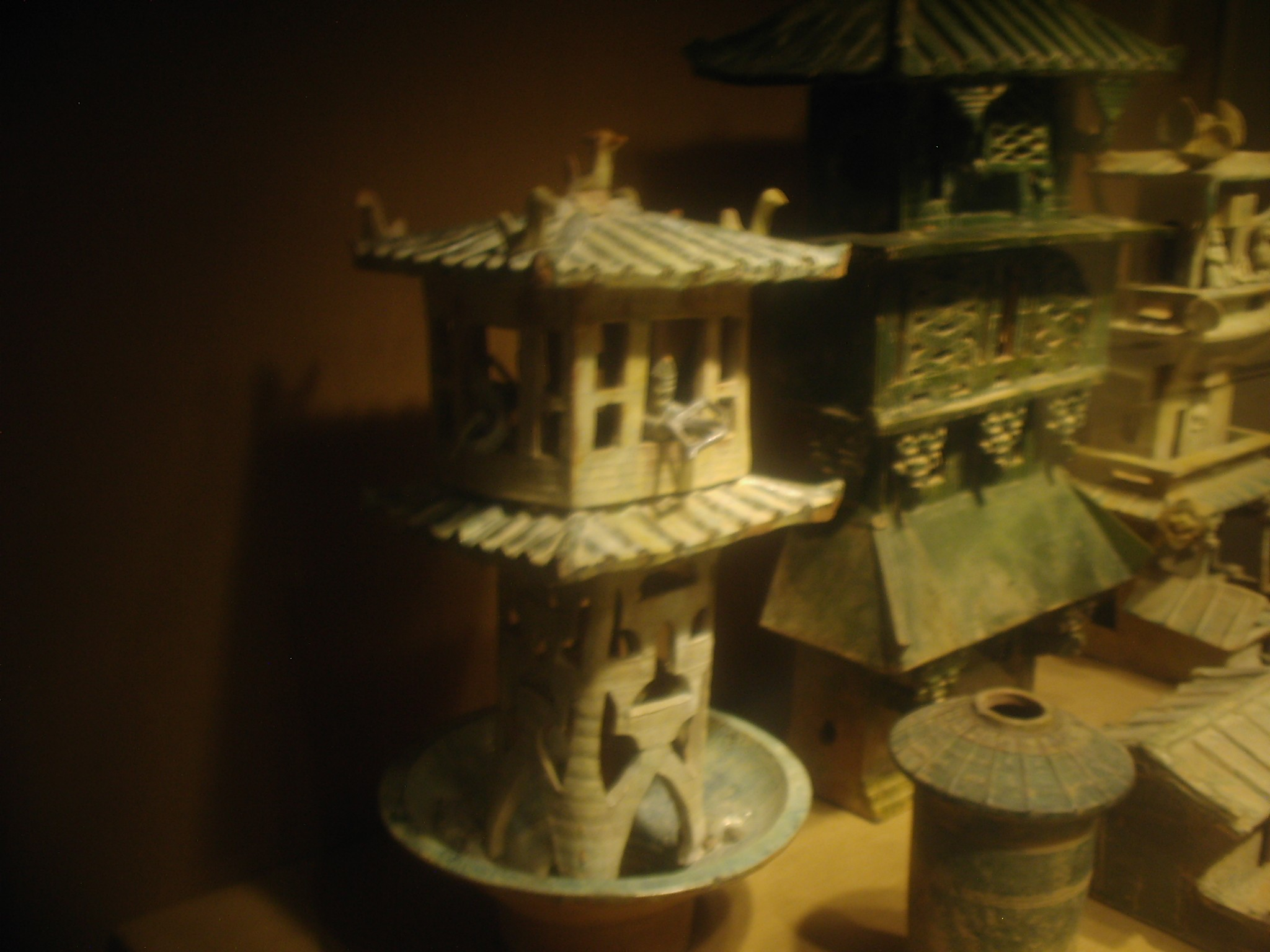 This is one of twelve pictures showing architectural models dated to the Chinese Eastern Han Dynasty (25–220 AD), made of earthenware with a green lead glaze, featured at the Metropolitan Museum of Art in New York City. The items include: Three watchtowers House with a courtyard Granary tower A large stove A mill A wellhead with a bucket Domesticated animal pens A square duck pond with rails